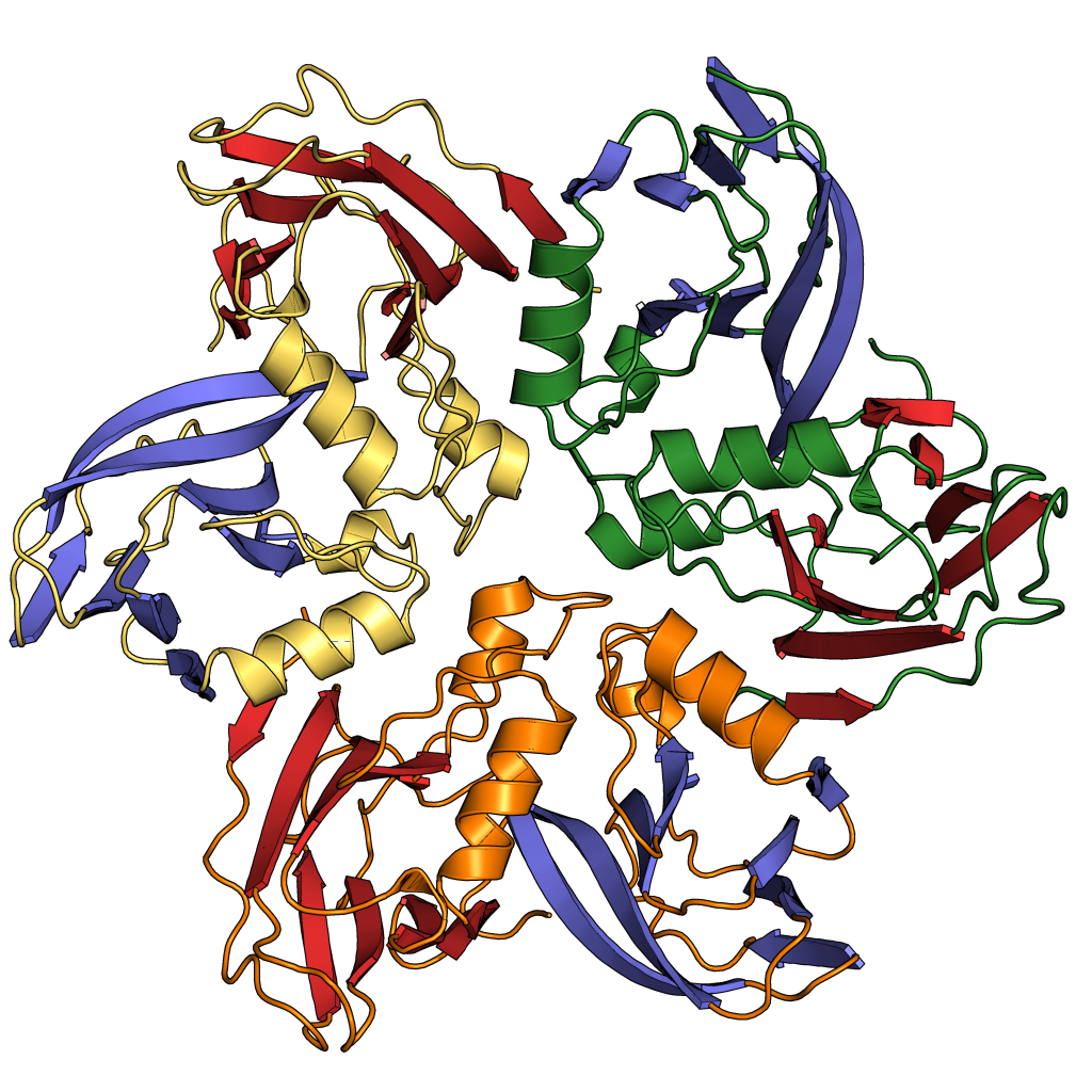 The major capsid protein P2 from the bacteriophage PM2, illustrating the double jelly roll fold found in the major capsid proteins of double-stranded DNA viruses of the PRD1-adenovirus lineage. The two distinct jelly roll domains are colored red and blue, with intervening loops and helices colored to highlight the three distinct monomers forming the pseudohexameric assembly. The topology and connectivity in each jelly roll is identical to that illustrated in File:4oq9 chainA jellyroll.png. The bottom (orange) monomer is illustrated in File:2w0c_monomer.png and the full capsid in File:2w0c_capsid.png. Rendered from chains H, I, and J of PDB ID 2W0C: Abrescia NG, Grimes JM, Kivelä HM, Assenberg R, Sutton GC, Butcher SJ, Bamford JK, Bamford DH, Stuart DI. Insights into virus evolution and membrane biogenesis from the structure of the marine lipid-containing bacteriophage PM2. Molecular cell. 2008 Sep 5;31(5):749-61. DOI 10.1016/j.molcel.2008.06.026.